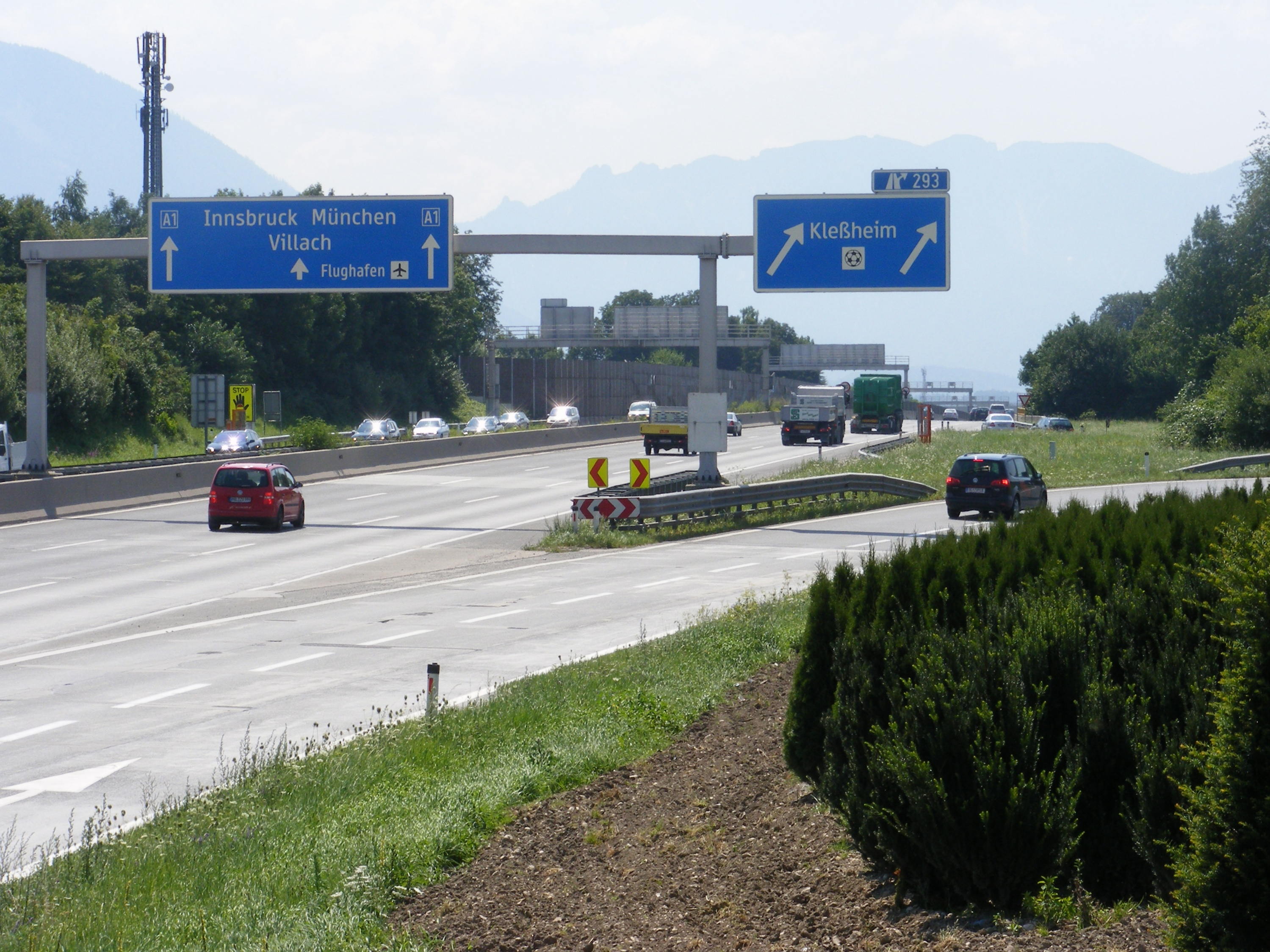 A1, Western motorway, exit Kleßheim (municipality of Wals-Siezenheim, close to the city of Salzburg, Austria.